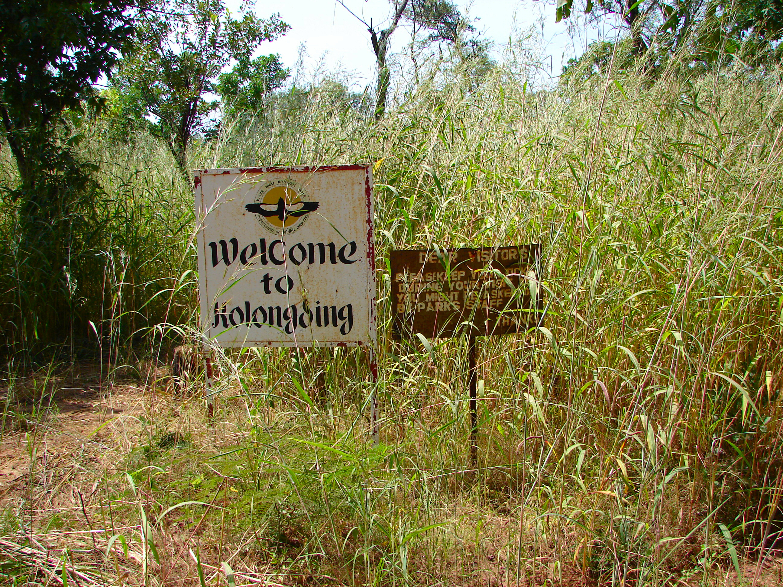 The Kolongding entrance to Kiang West National Park in The Gambia. The facilities are not really well maintained.